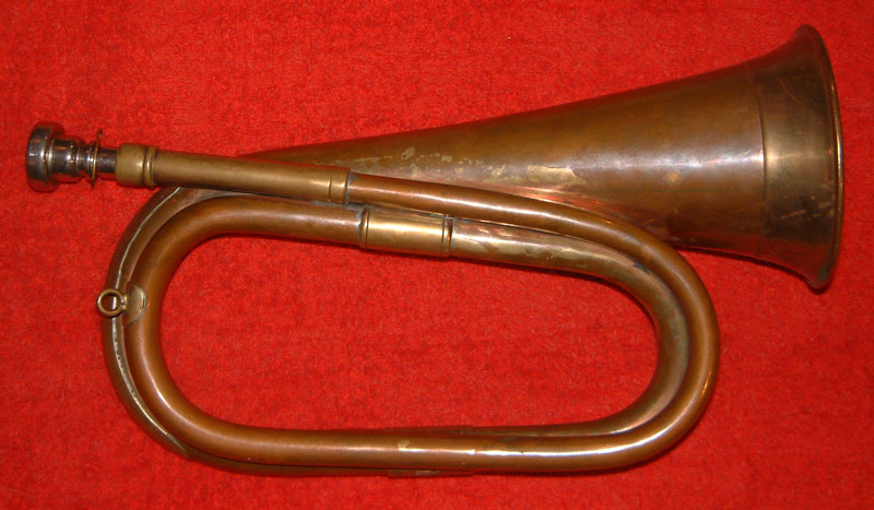 English military bugle in B flat